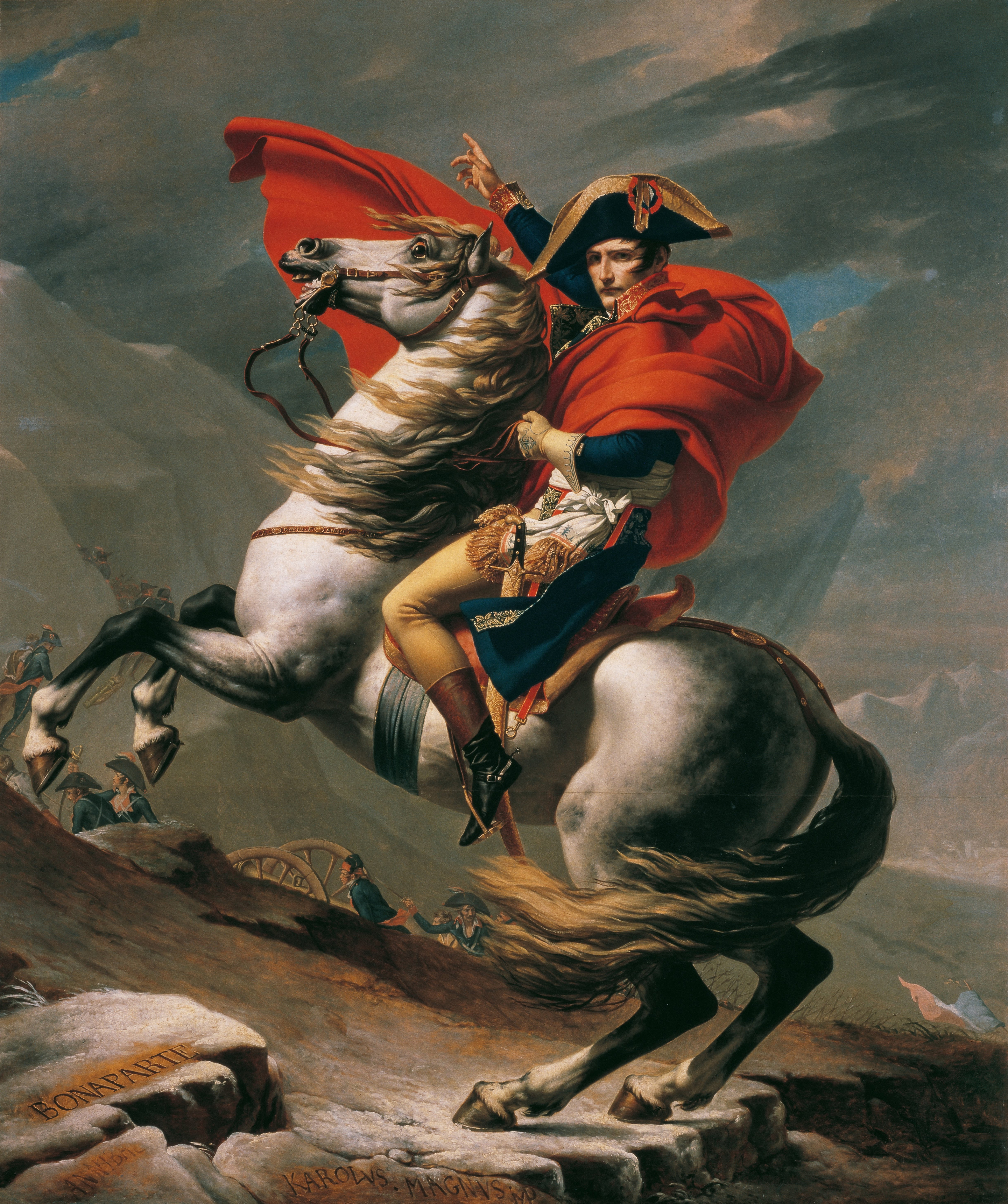 is almost identical to that of 1. Versailles version but signed